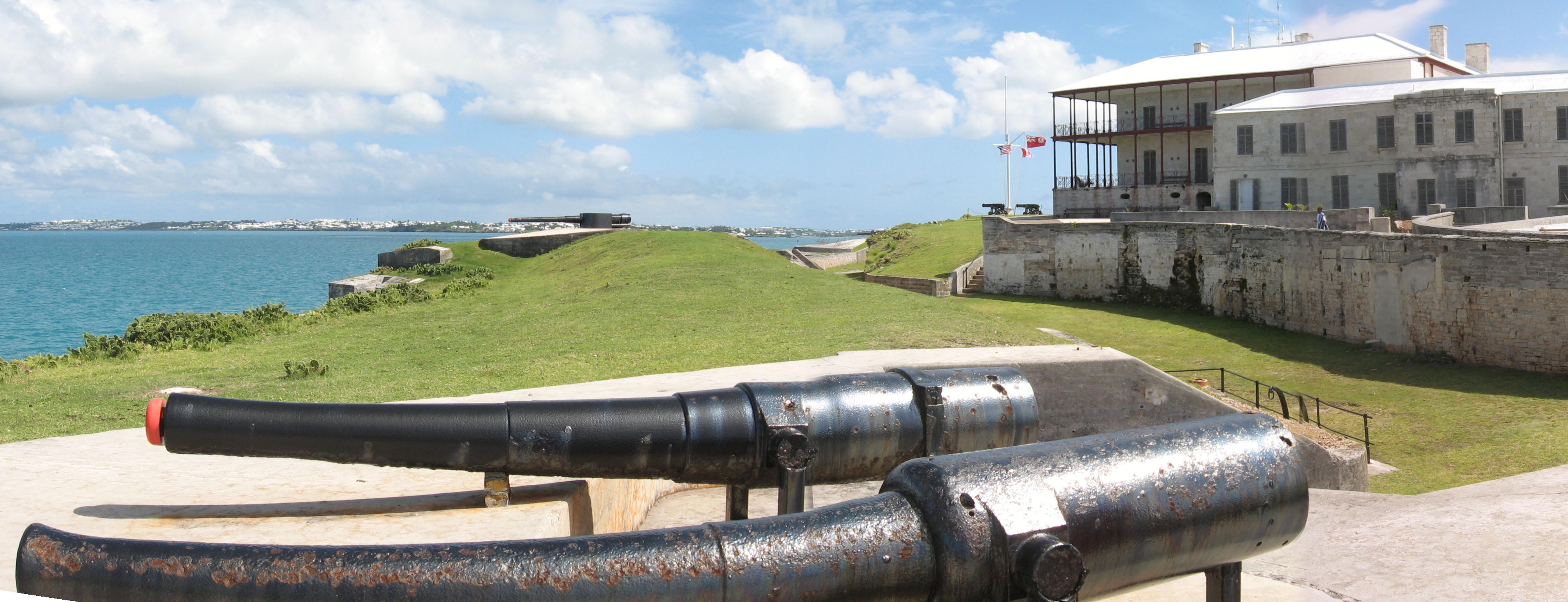 British 6-inch rifled breechloading naval guns in the Royal Naval Dockyard, Bermuda. A Mark II and a Mark IV, with a Mk VII coast defence gun behind, awaiting restoration at the Bermuda Maritime Museum.